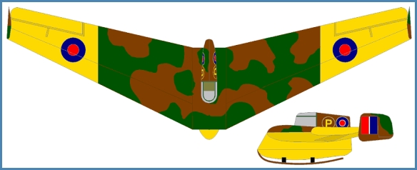 Slingsby Bayens Bat